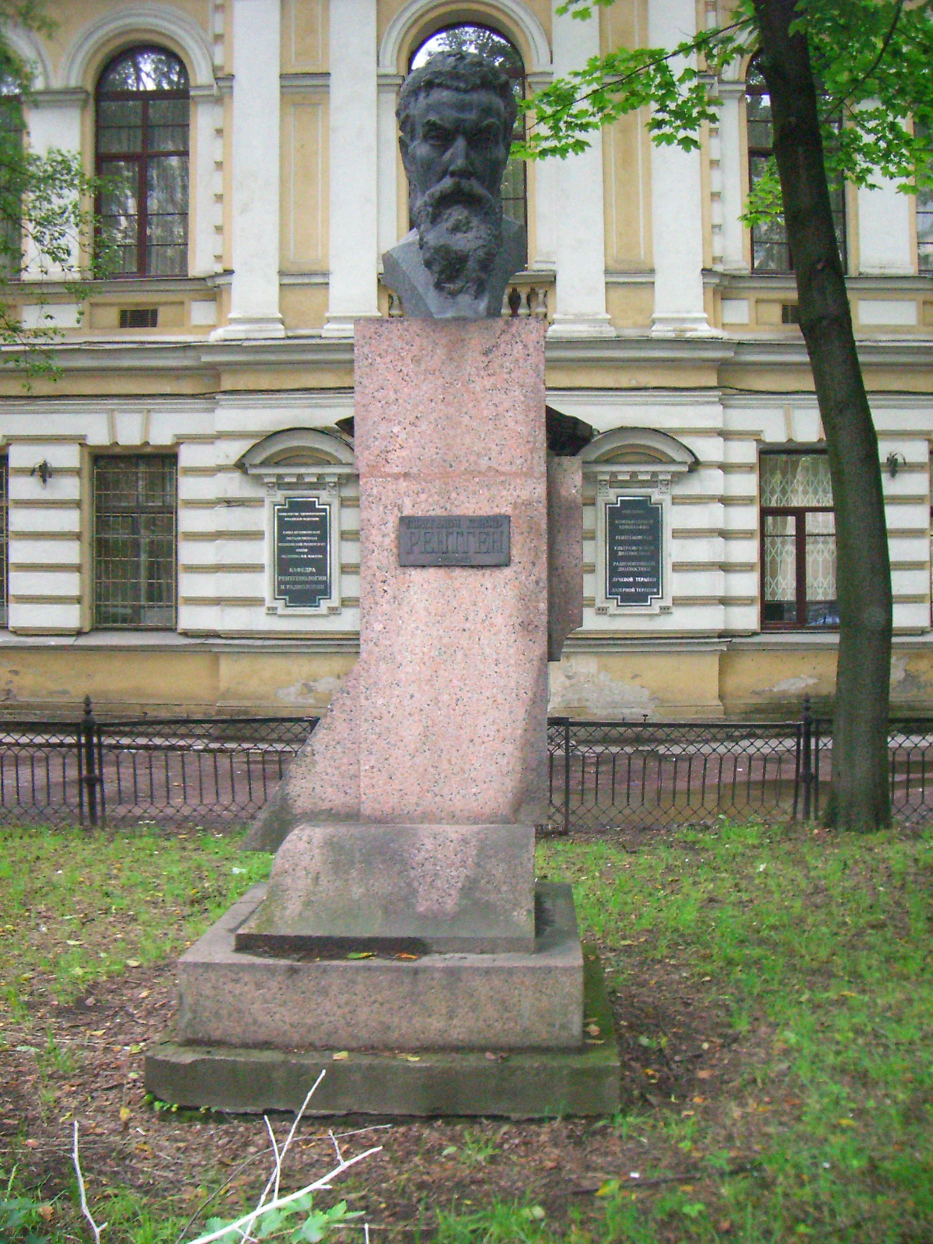 Monument to the German physicist who discovered X-ray Wilhelm Röntgen. Rentgen street 6, Saint-Petersburg, Russia. One of the first monuments to Wilhelm Conrad Röntgen, it was erected in 1928